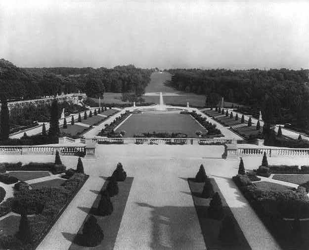 Edward T. Stotesbury home. "Whitemarsh Hall". Philadelphia, Pa. [Gardens, looking east from mansion toward Willow Grove Avenue.]